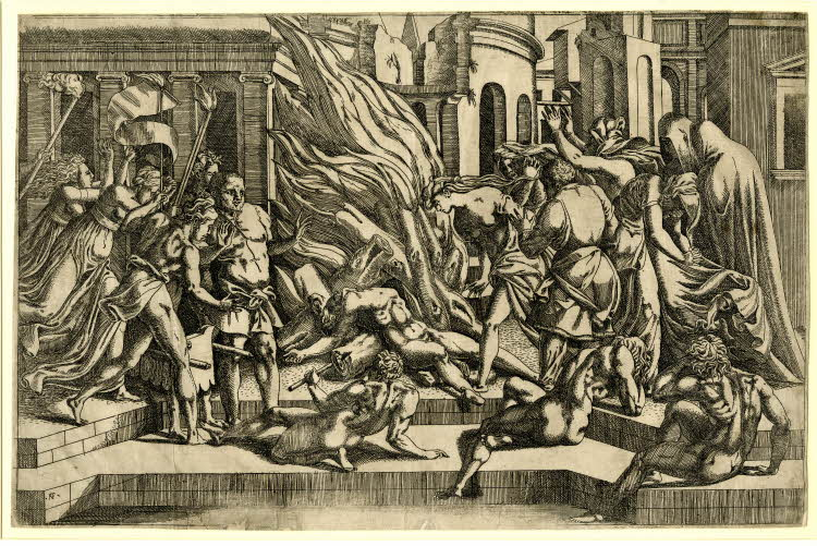 Print by Antonio Fantuzzi, British Museum In a classic architectural setting, people standing on each side of a funeral pyre, where lies the body of a man; possibly the funerals of Hector. c.1542/43 Etching after Rosso Fiorentino height: 267 millimetres Width: 405 millimetres Signed on plate with monogram, bottom left. BM page